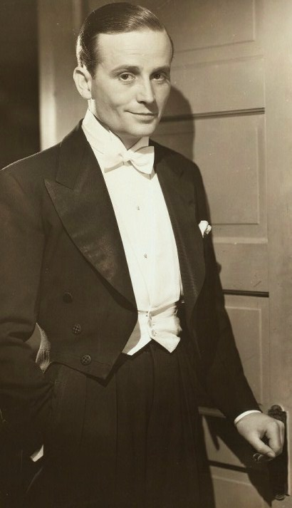 Frank Lawton in One More River - publicity still (cropped : see source)